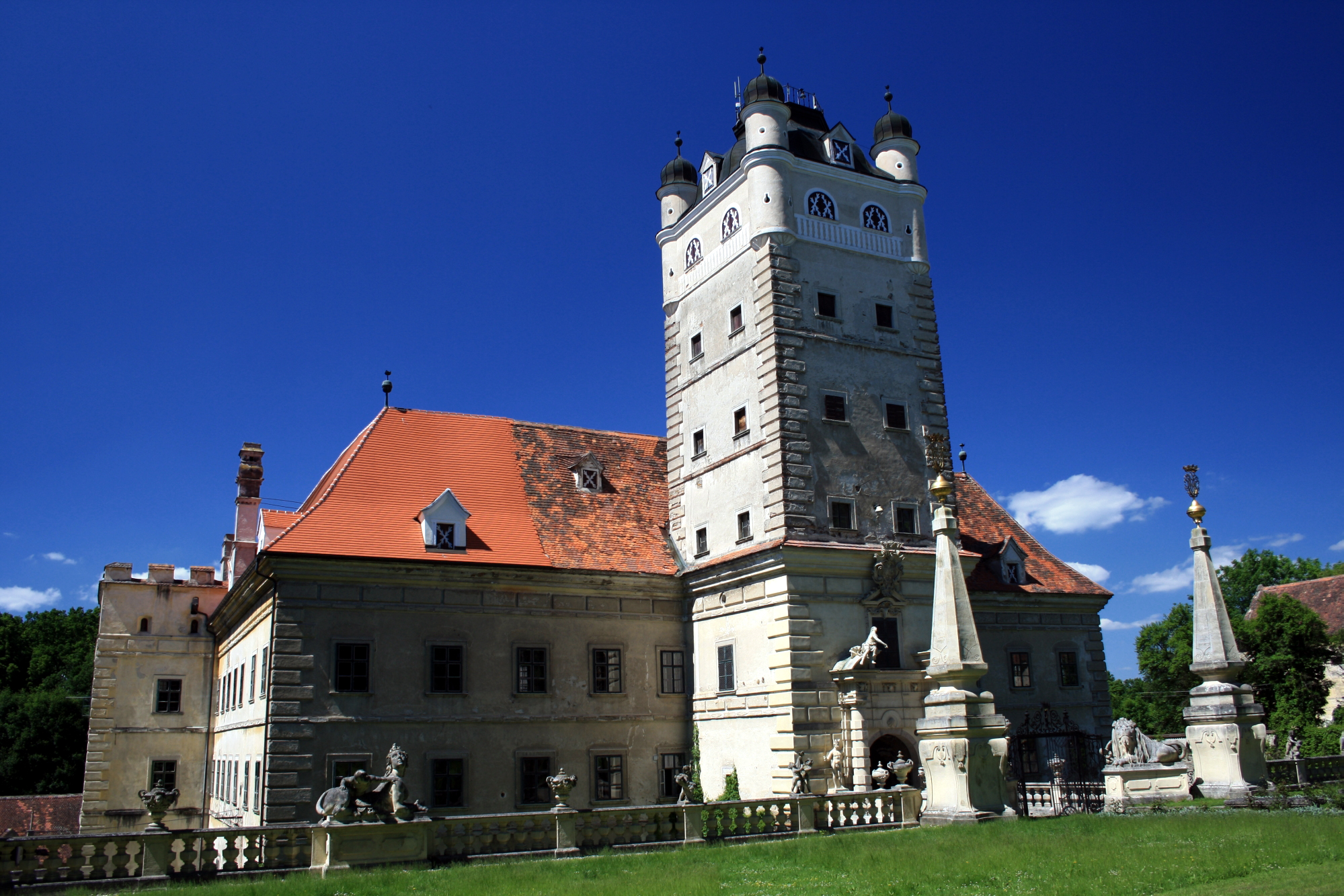 Schloss Greillenstein in Lower Austria.